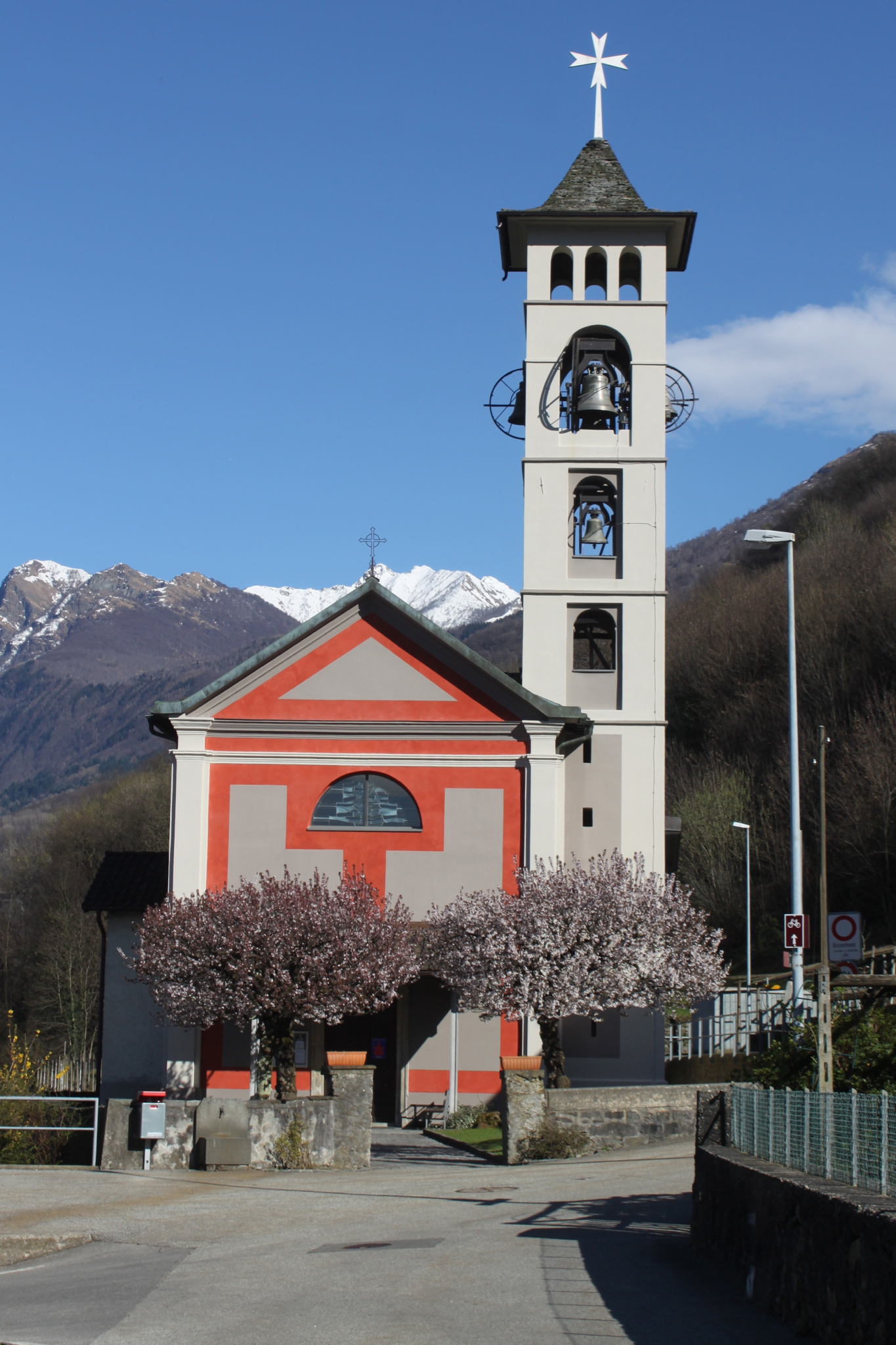 San Giovanni Battista church in Contone.